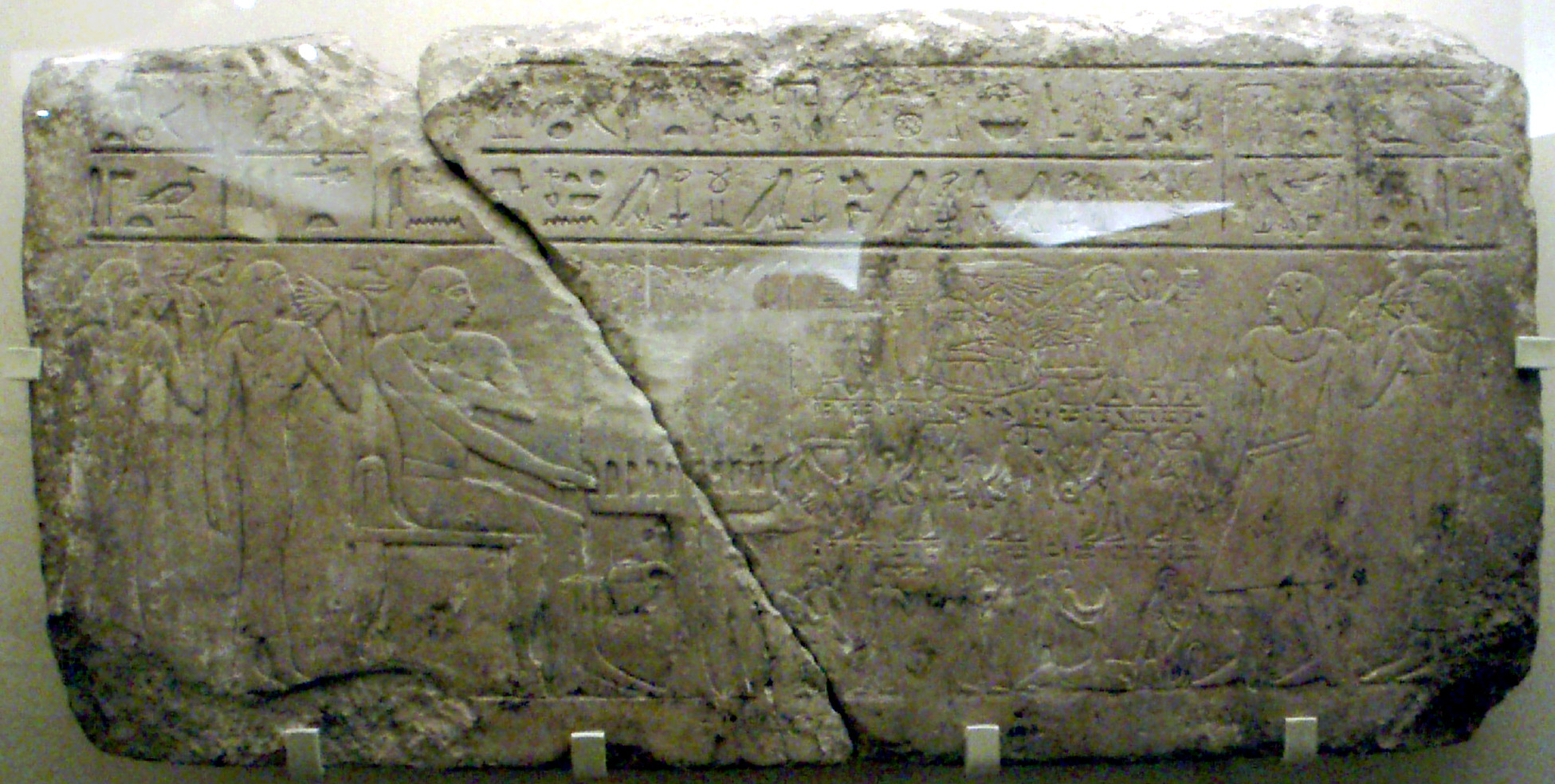 Tomb relief of a Iny and his family receiving offerings from their servants. From the 10th dynasty, possibly from Saqqara.